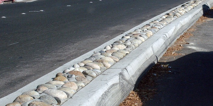 A median (central reservation) in Redwood City. Notice the use of rocks decoratively set in the concrete median for a pleasant "bulbous" appearance. This arrangement is commonly used in the U.S. state of California on arterial roads and expressways, especially where a median is too narrow to support landscaping. The objects on the pavement in the background are Botts' dots.